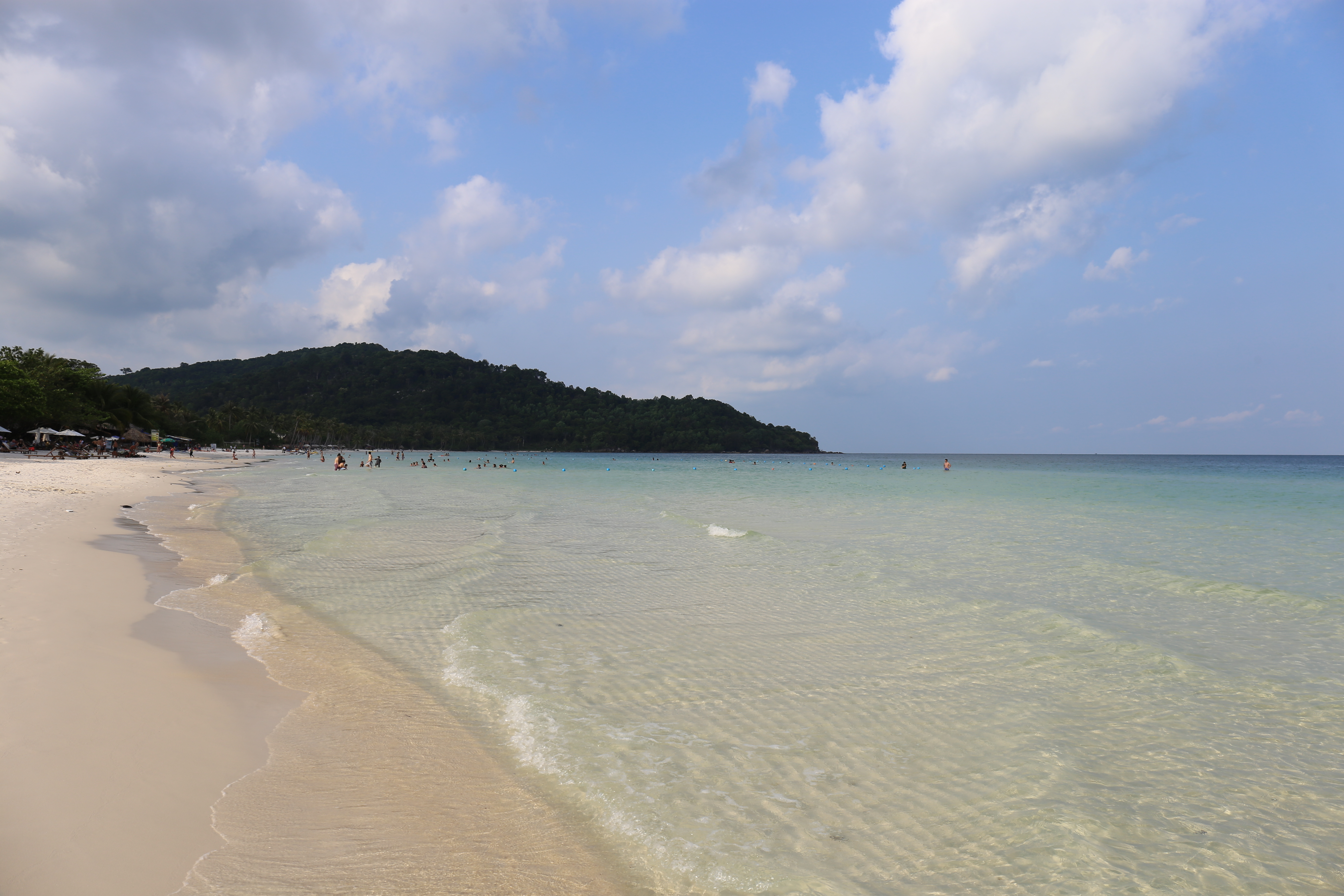 Bãi Sao or Sao Beach or Star Beach is located on the south eastern side of Phu Quoc Island in An Thoi Town. Sao Beach is 7km's of white sandy heaven. It is ranked high amongst not only the best beaches in Vietnam but also in all of Southeast Asia.